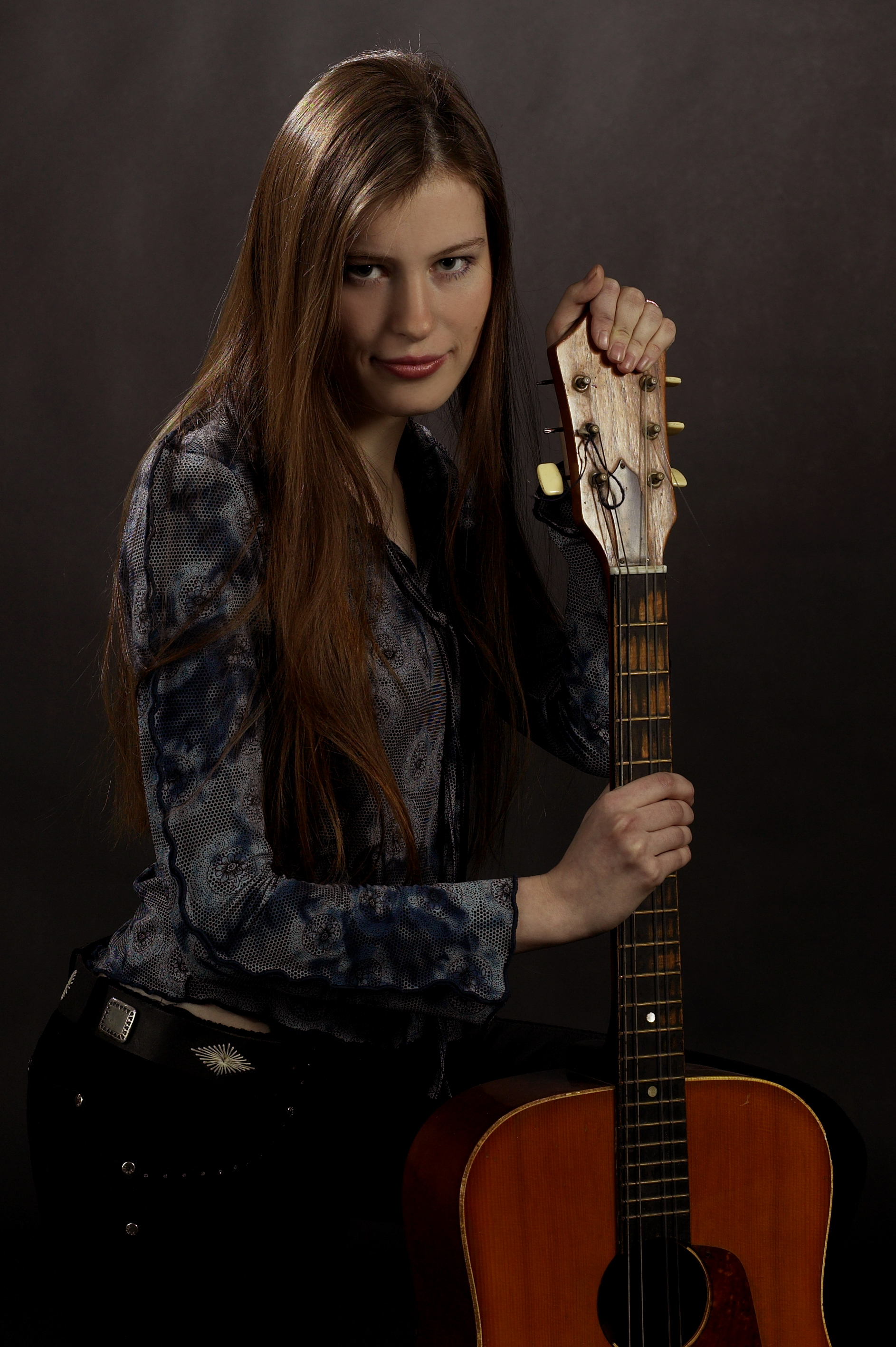 Natalia Pogonina